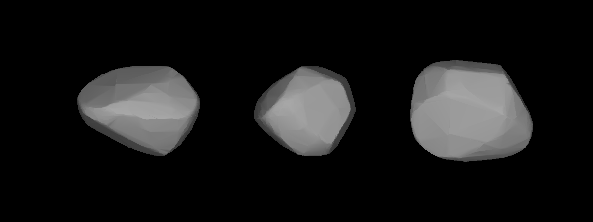 A three-dimensional model of 30 Urania that was computed using light curve inversion techniques.